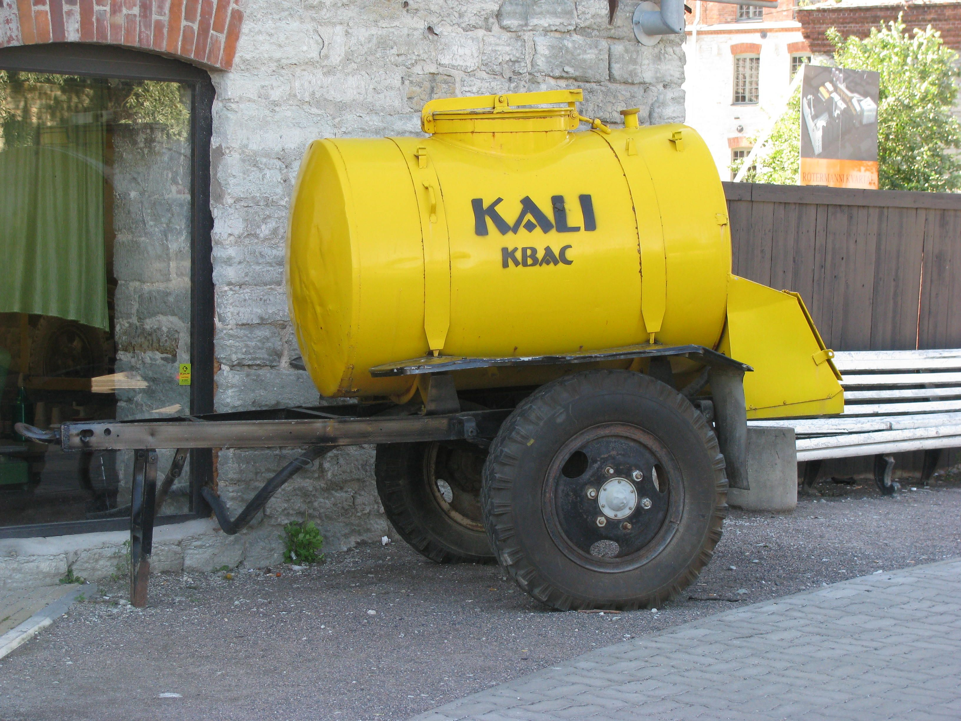 Soviet time exhibition showing a kvass barrel. Rotermann Quarter, Tallinn